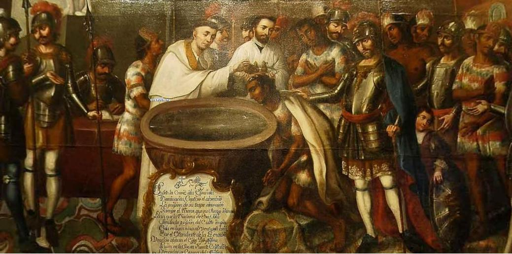 Evangelización por la Orden Franciscana